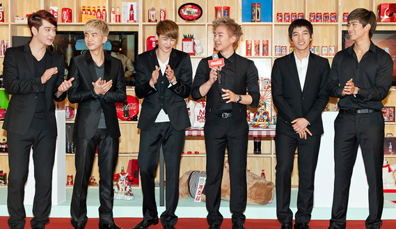 2PM at Coca-Cola Colletion 125 opening event, on June 9, 2011